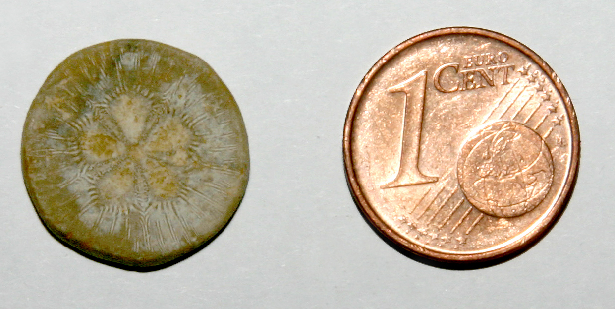 roman Tessera compared to a Euro cent coin